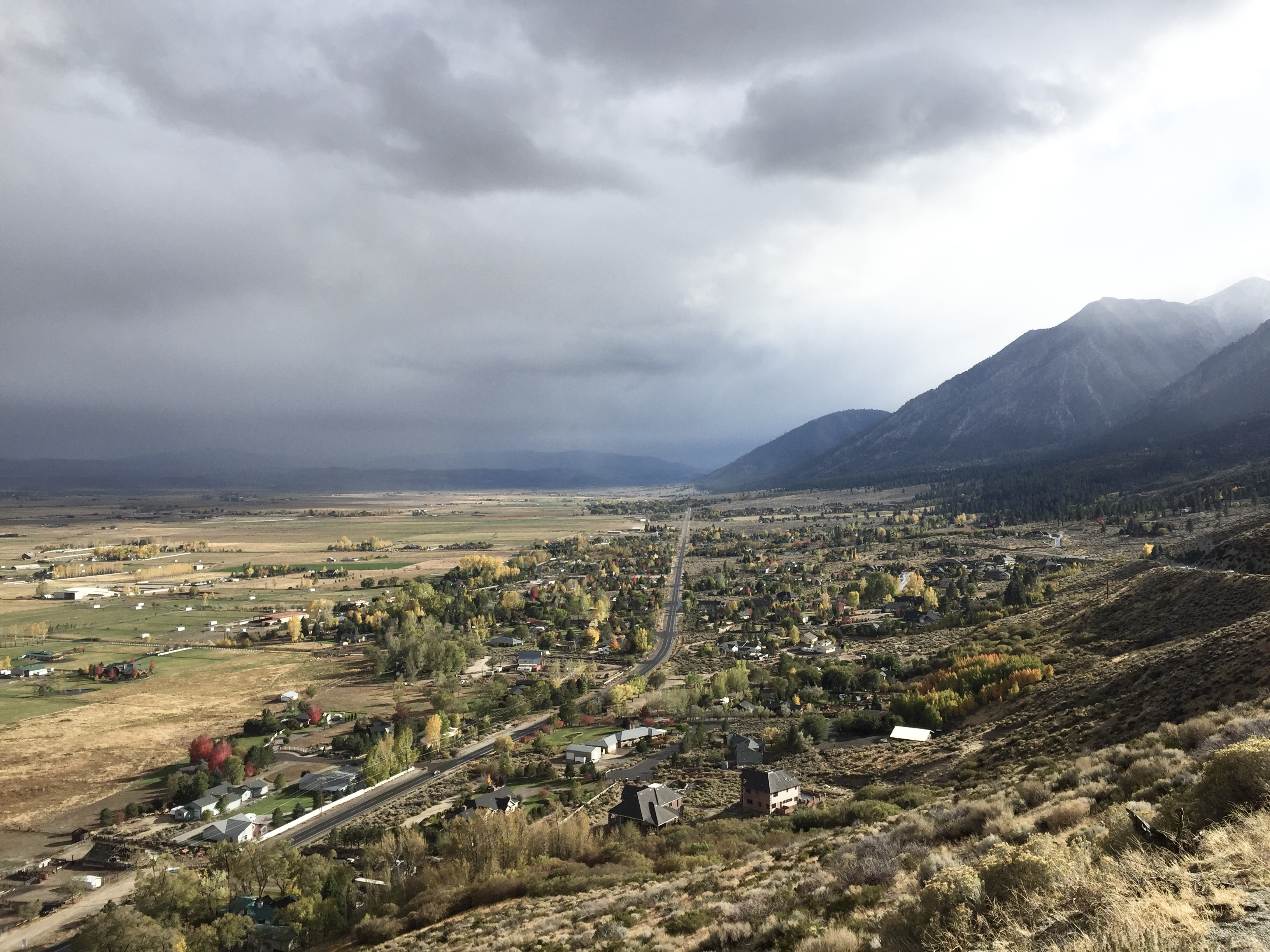 View south towards Mottsville, Nevada and the Carson Valley from Nevada State Route 207 (Kingsbury Grade) just to the north